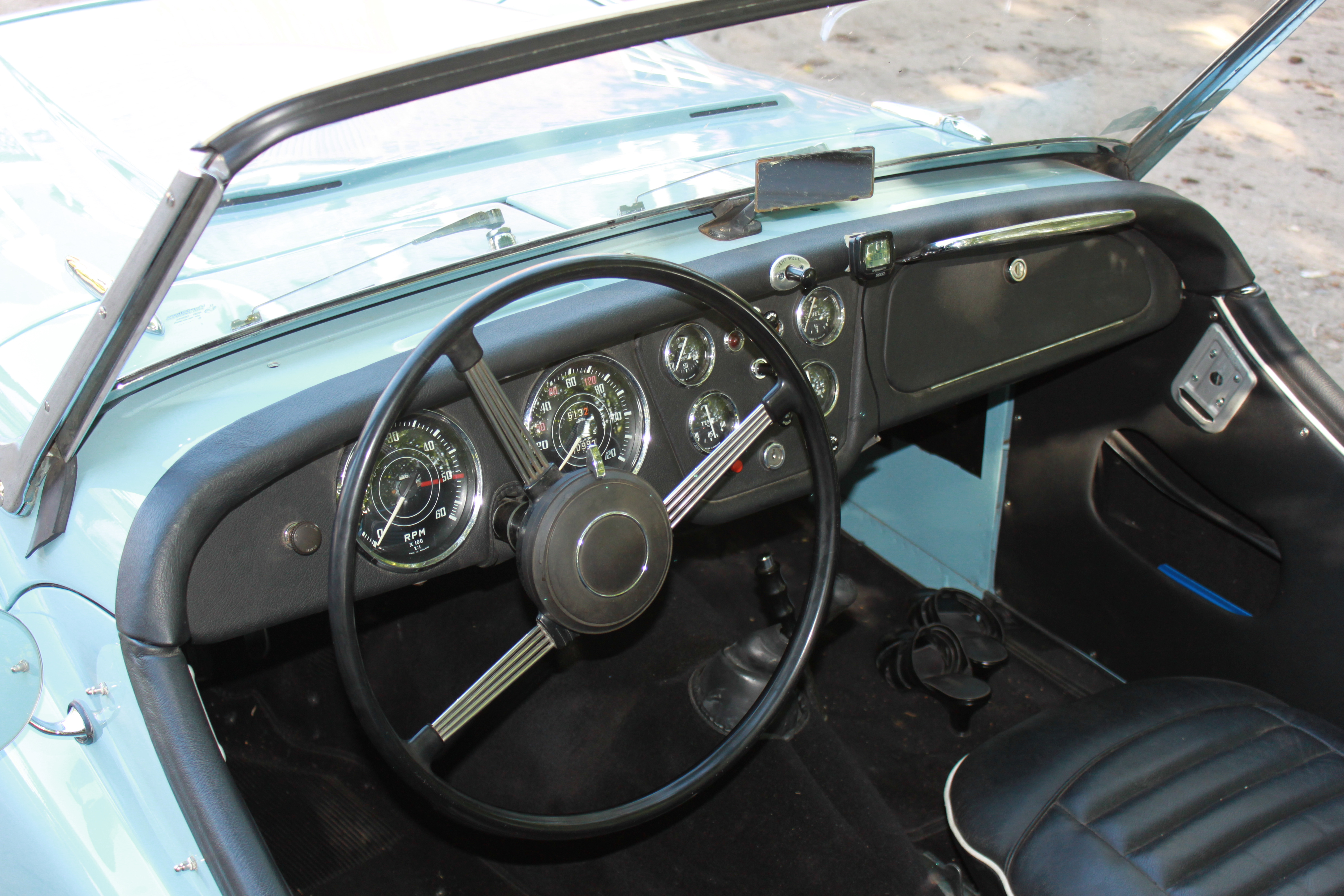 Car, Triumph TR3 interior, left hand steering